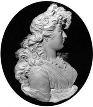 Portrait of Charlotte, Princess Royal (1766-1828)